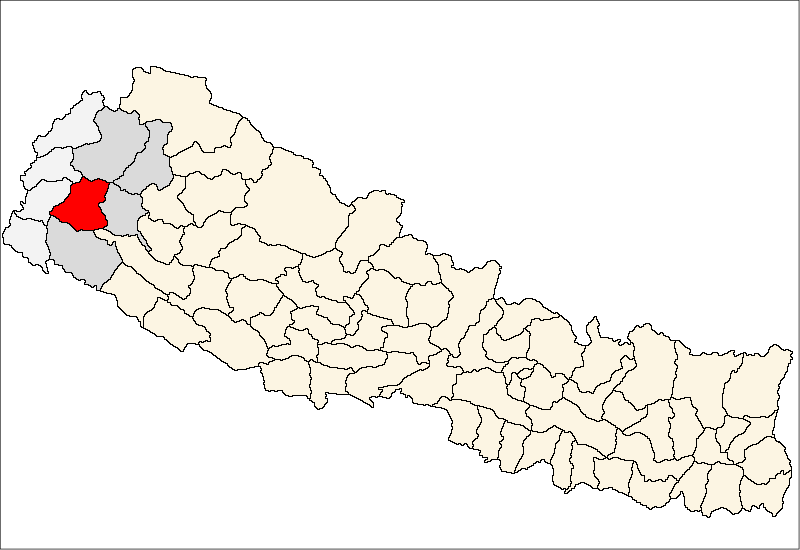 FrenchCarte de localisation dudistrict de Doti(wp-FR),au Népal (wp-FR).EnglishLocation map ofDoti District(wp-EN),in Nepal (wp-EN).